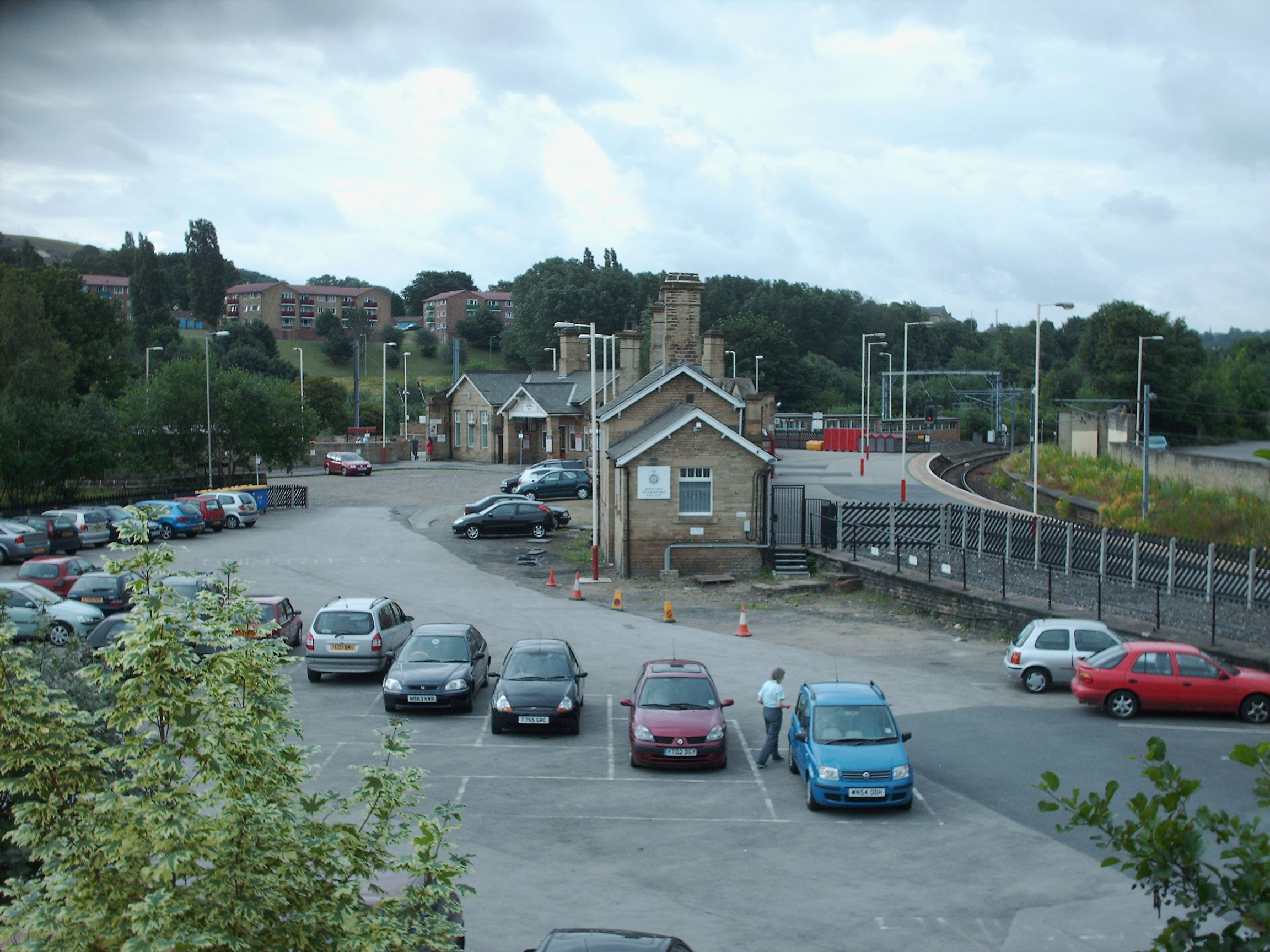 Shipley railway station, West Yorkshire, England. The station buildings seen from the footbridge at platform 2.